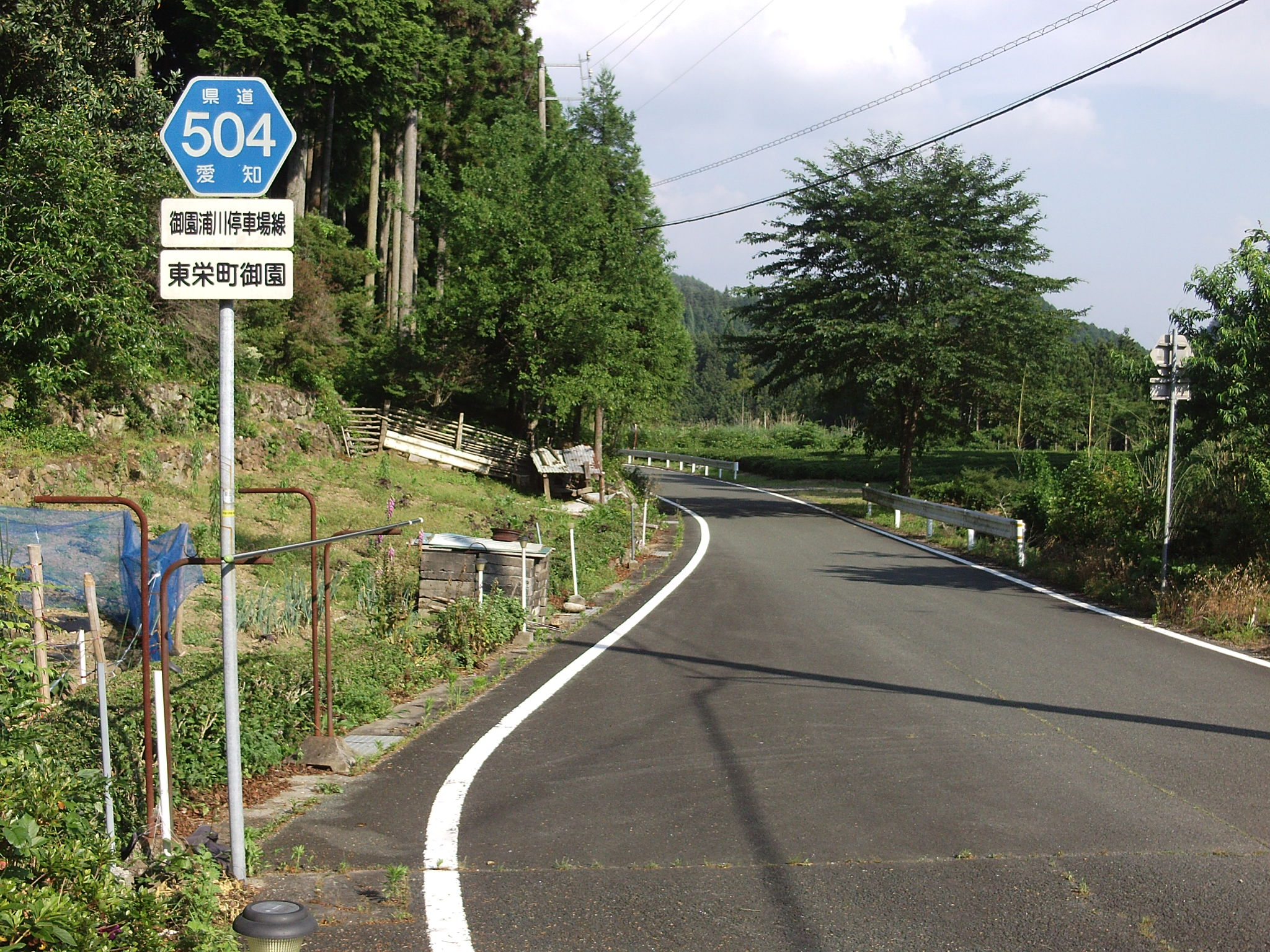 Aichi prefectural road No.504 in Misono Toei-cho, Kitashitara-gun, Aichi.